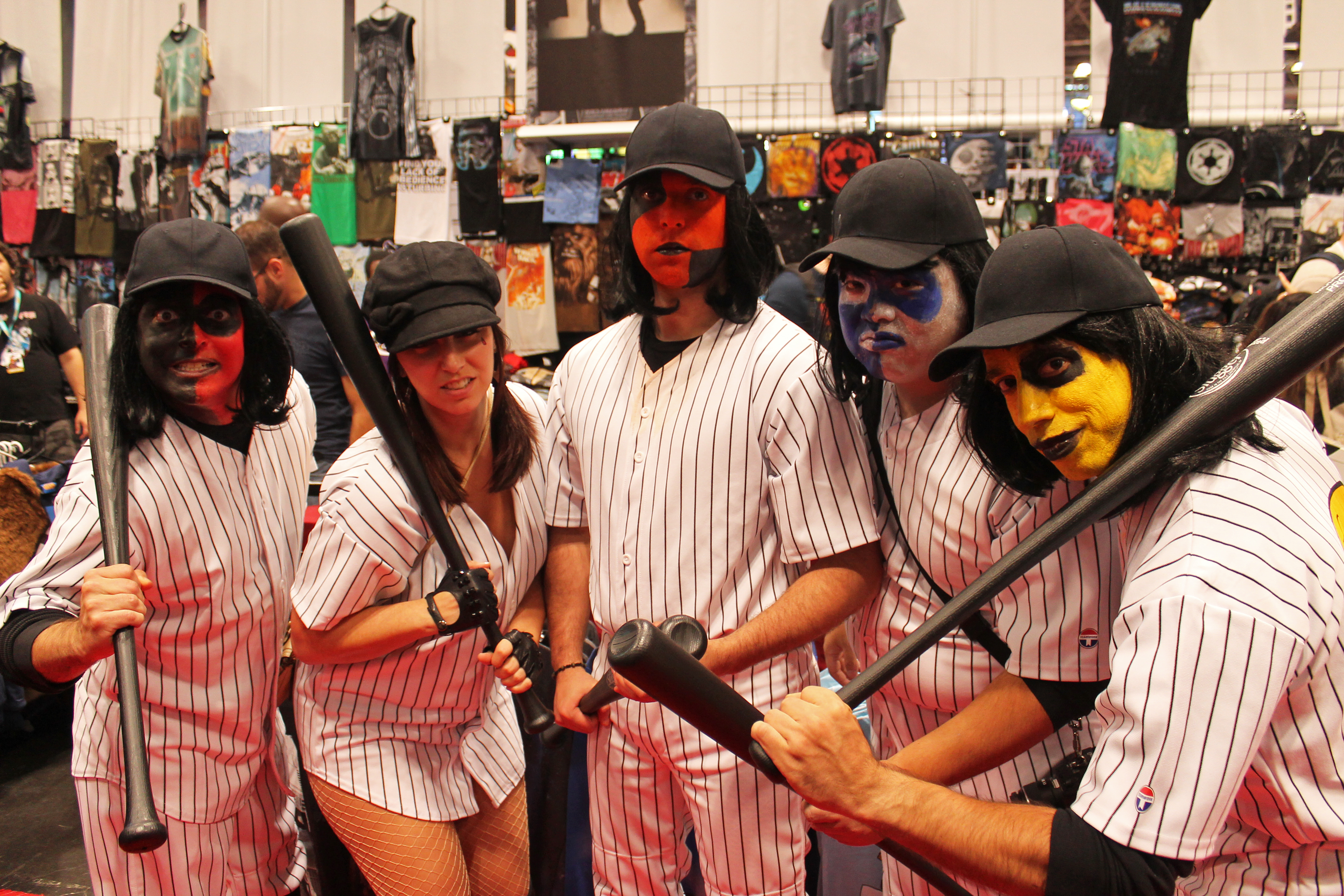 The Baseball Furies from "The Warriors". (As seen on ! Taken at New York Comicon, 2014 at the Jacob Javitz Center on Saturday, October 11th. A very sincere thanks to all of the nice folks who were kind enough to let me take their picture. If you see yourself in this or any of my other pictures, let me know in the comments, or by emailing me at loser: [at] istolethe [dot] tv.